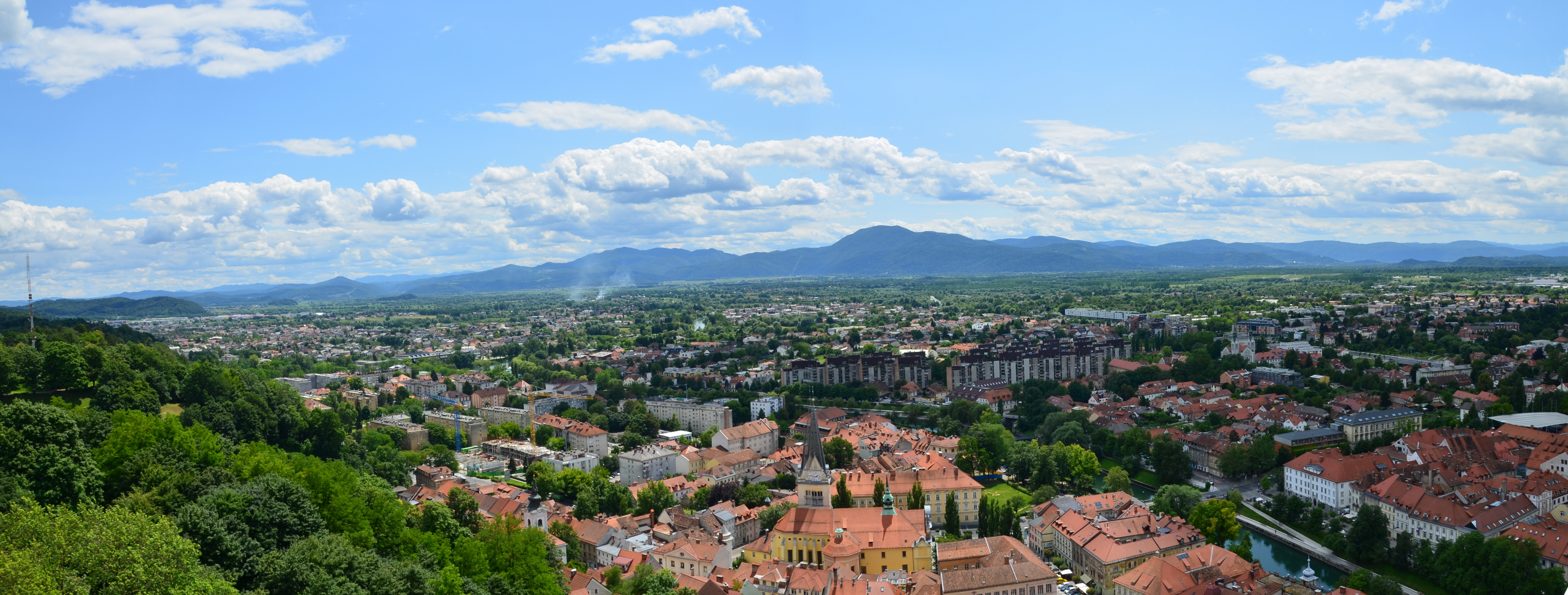 Ljubljana Castle - south with Ljubljana marshes and Krim hill in the background